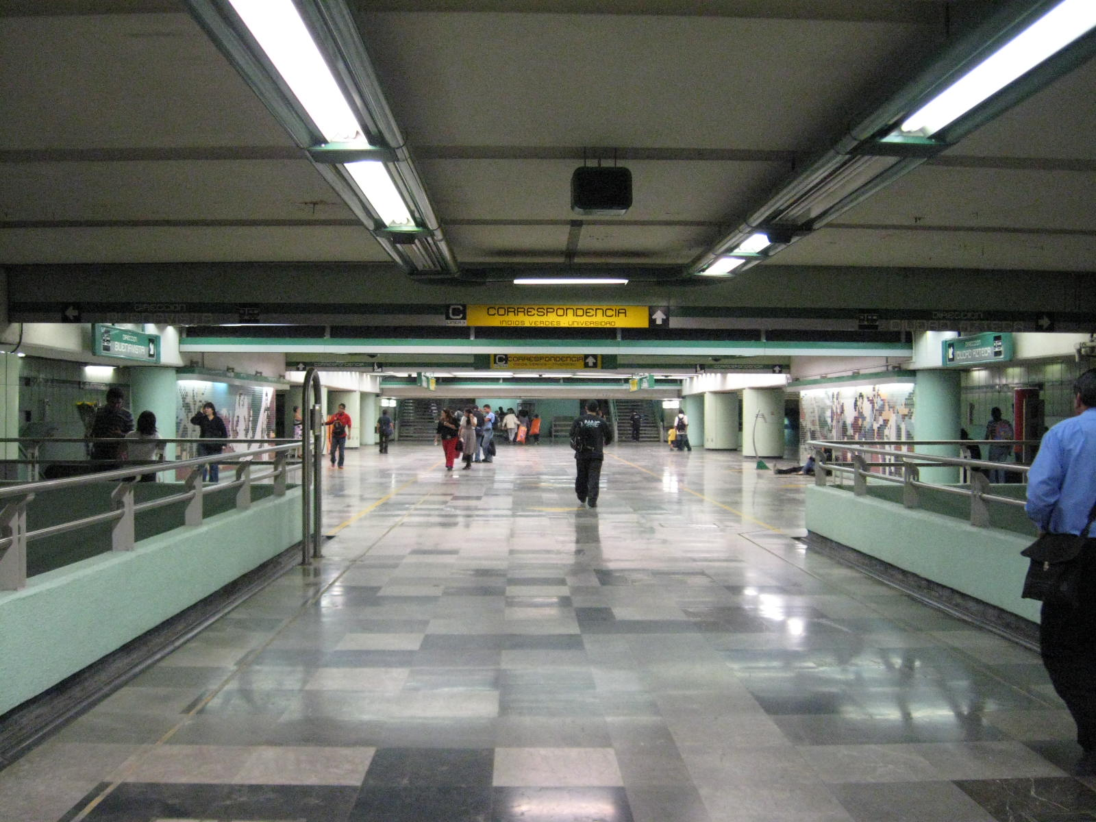 Line B section of Metro station Guerrero of the Mexico City Metro system